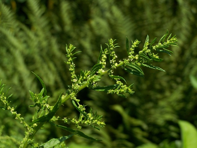 Dysphania ambrosioides (L.) Mosyakin & Clemants (Syn.: Chenopodium ambrosioides L.) Mexican Tea, Herba Sancti Mariæ Mexican Tea Jesuiten-Thee